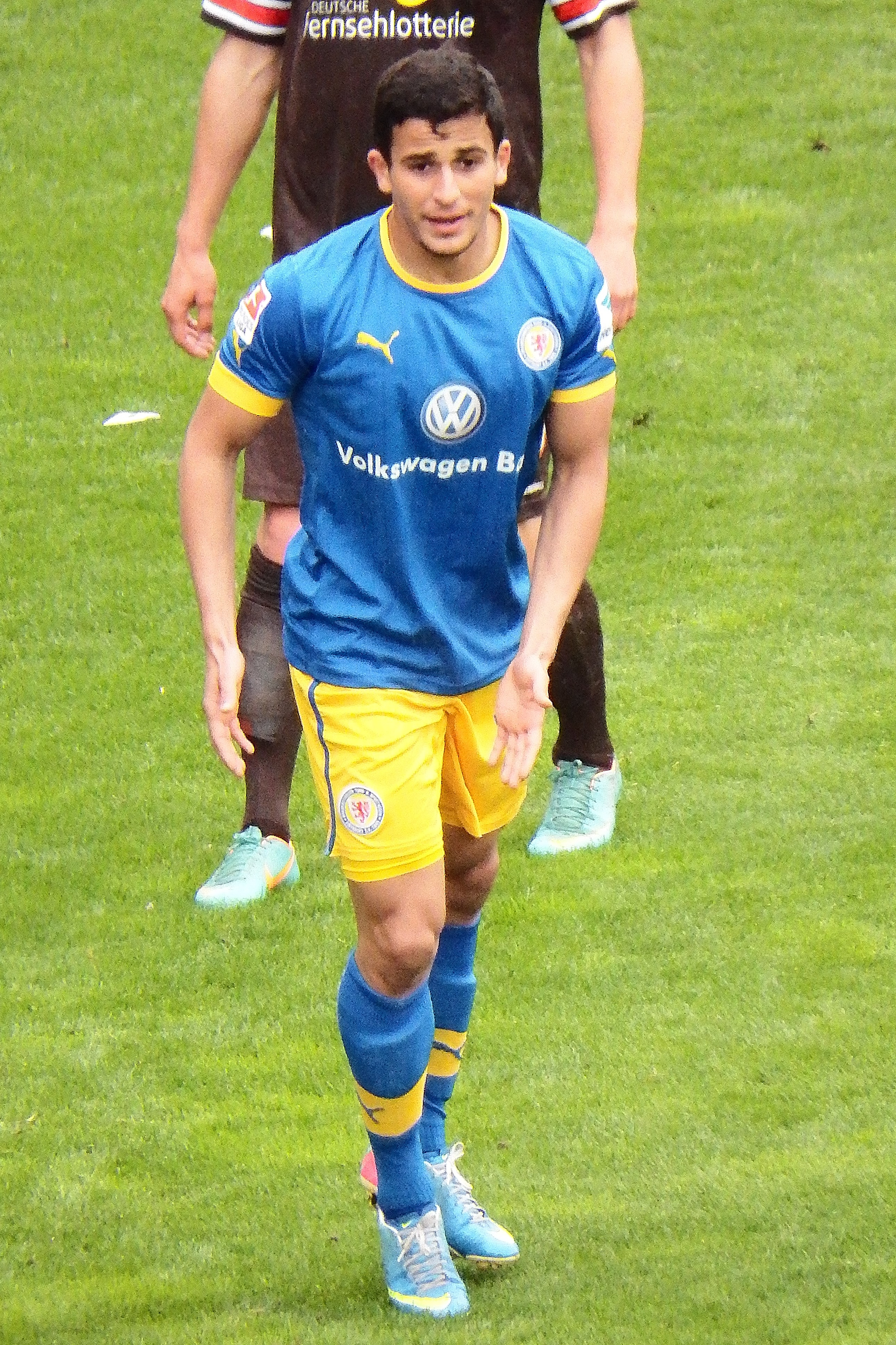 Omar Elabdellaoui as Player from Eintracht Braunschweig